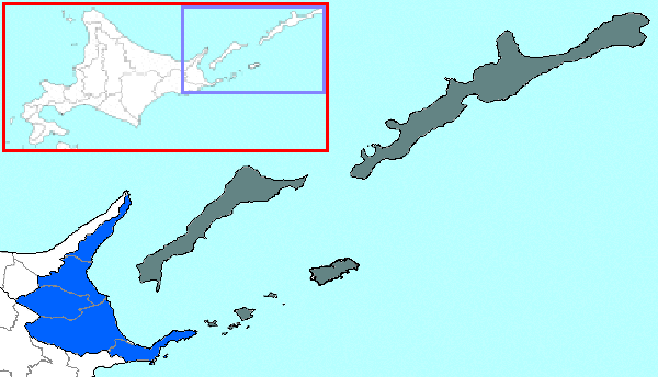 The map of Nemuro Subprefecture is blue in Hokkaido Prefecture. The southern Kuril islands (Southern Chishima) is gray and claimed by Japan as the Northern Territories.